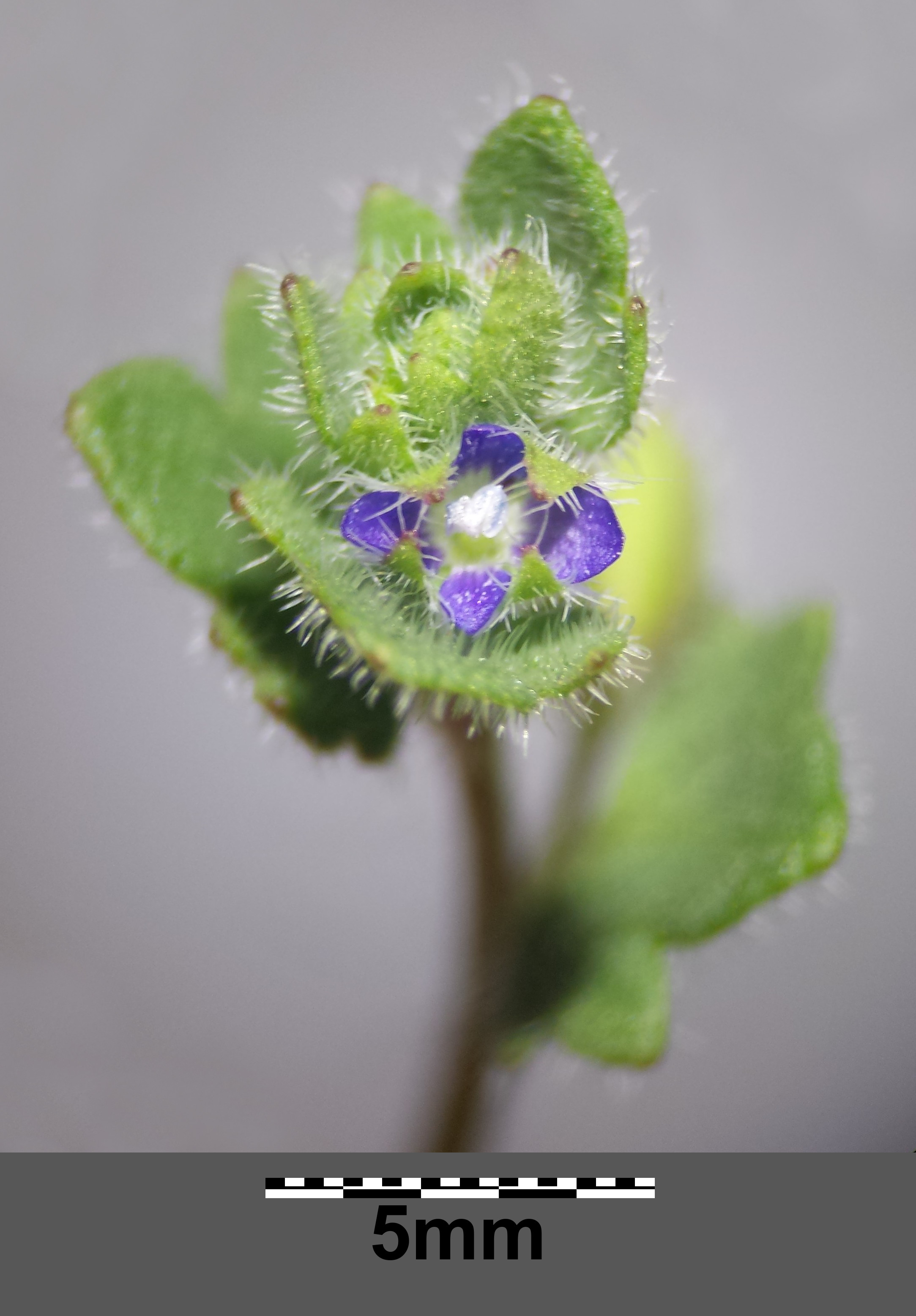 Inflorescence Taxonym: Veronica triloba ss Fischer et al. EfÖLS 2008 ISBN 978-3-85474-187-9 Location: Latschenberg near Altenmarkt im Thale, district Hollabrunn, Lower Austria - ca. 325 m a.s.l. Habitat: slope